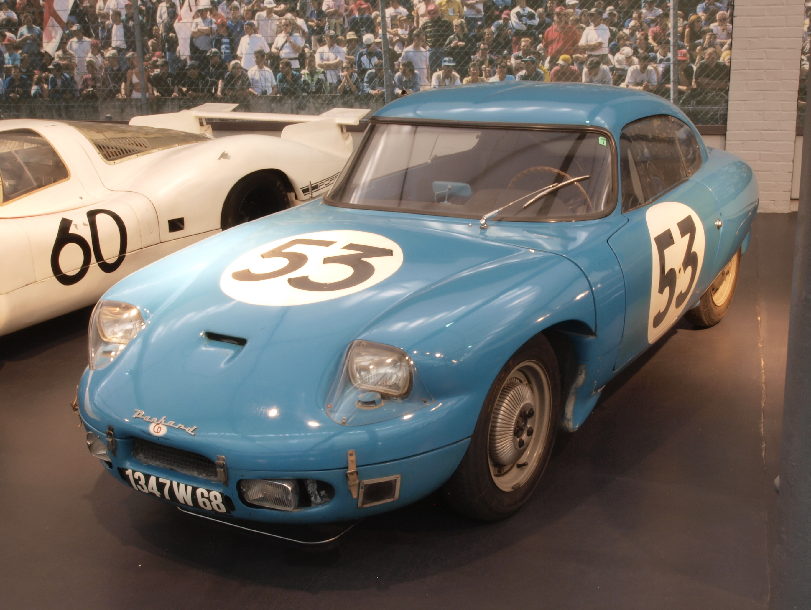 Photographed at the Cité de l’Automobile, France. OLYMPUS DIGITAL CAMERA